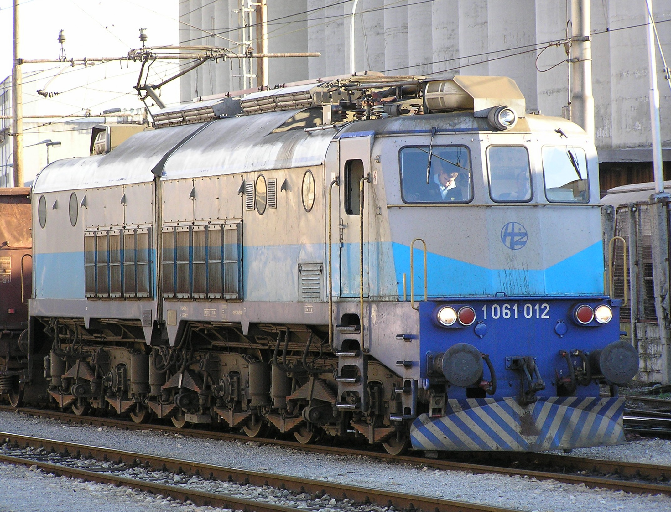 A HŽ 1061 series locomotive in Rijeka, Croatia